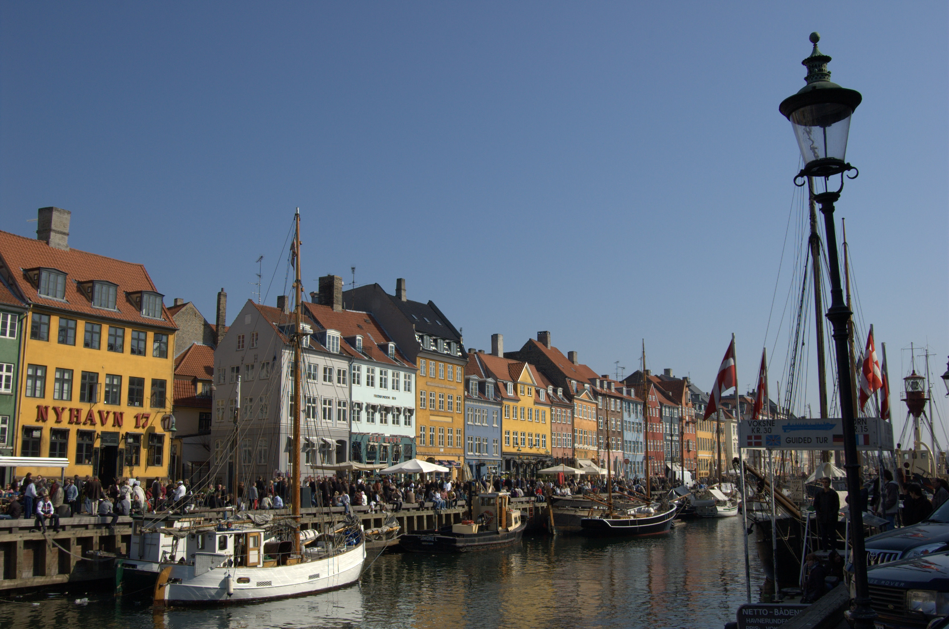 Nyhavn in Copenhagen, Denmark.